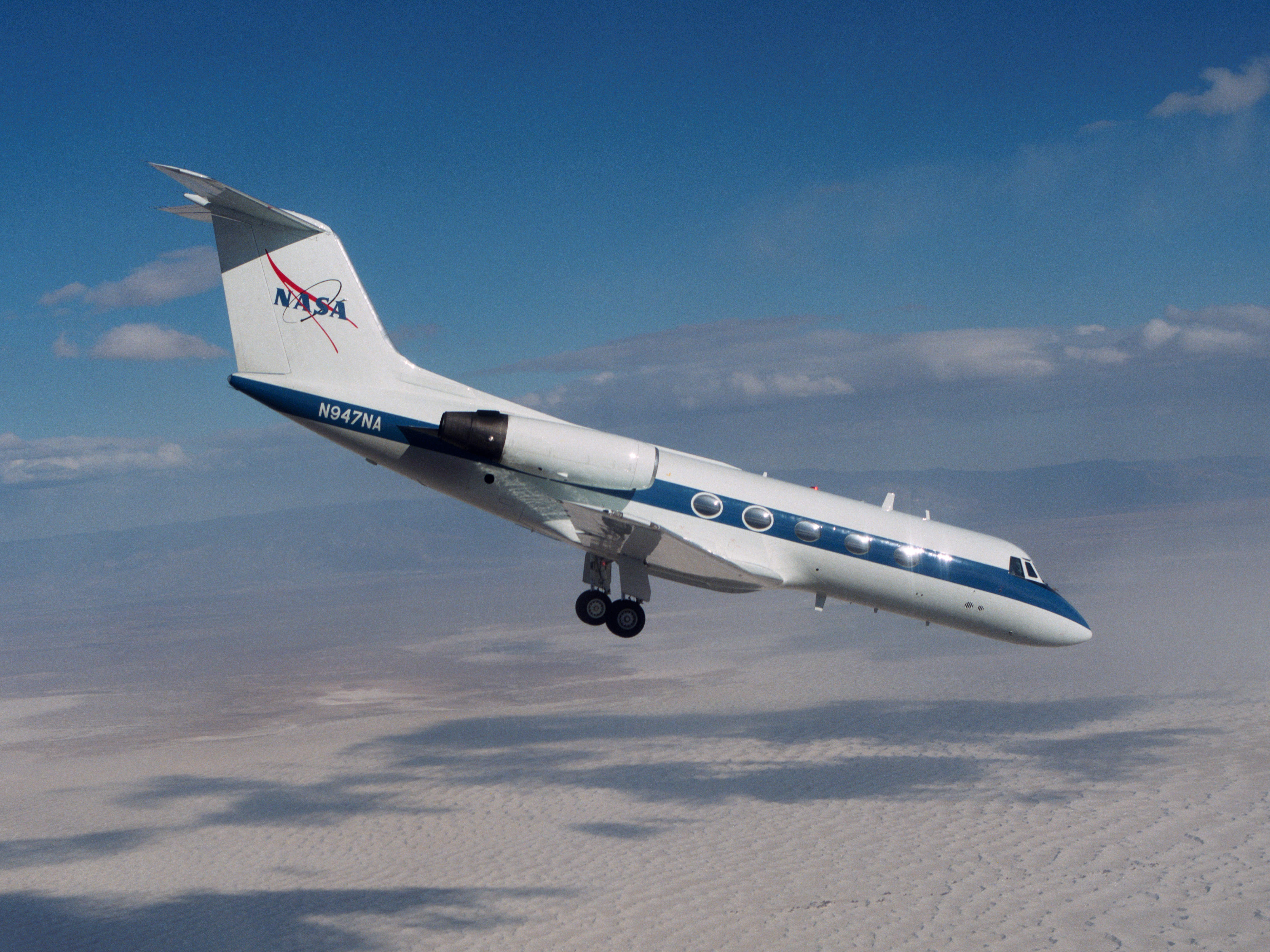 The Gulfstream II Shuttle Training Aircraft positioned in a downward trajectory like the Space Shuttle. Note the lowered landing gear.